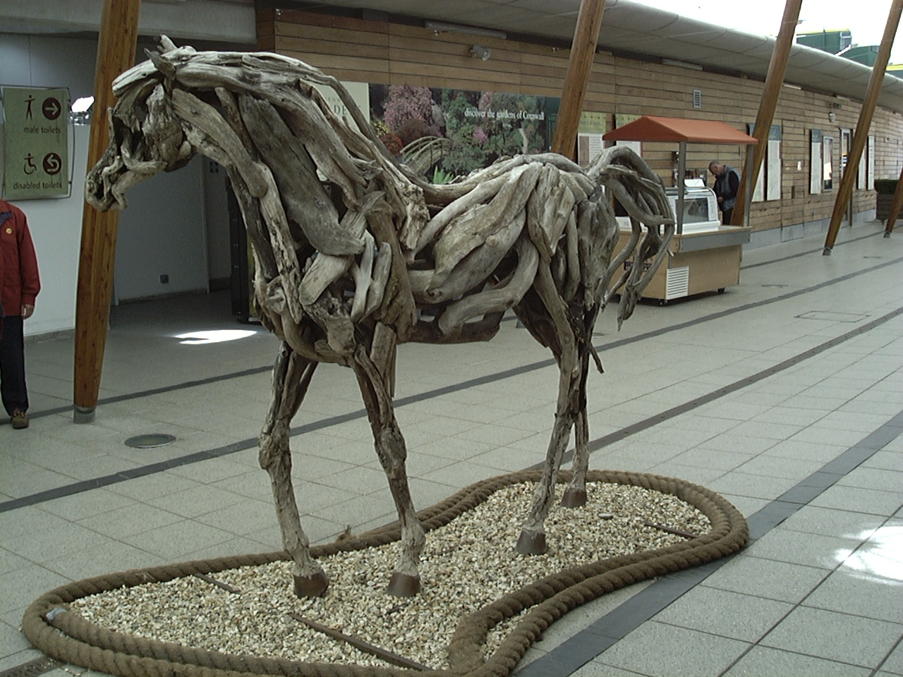 Sculpture of a horse by artist Heather Jansch, [1] made from driftwood. Eden Project, Cornwall, England.